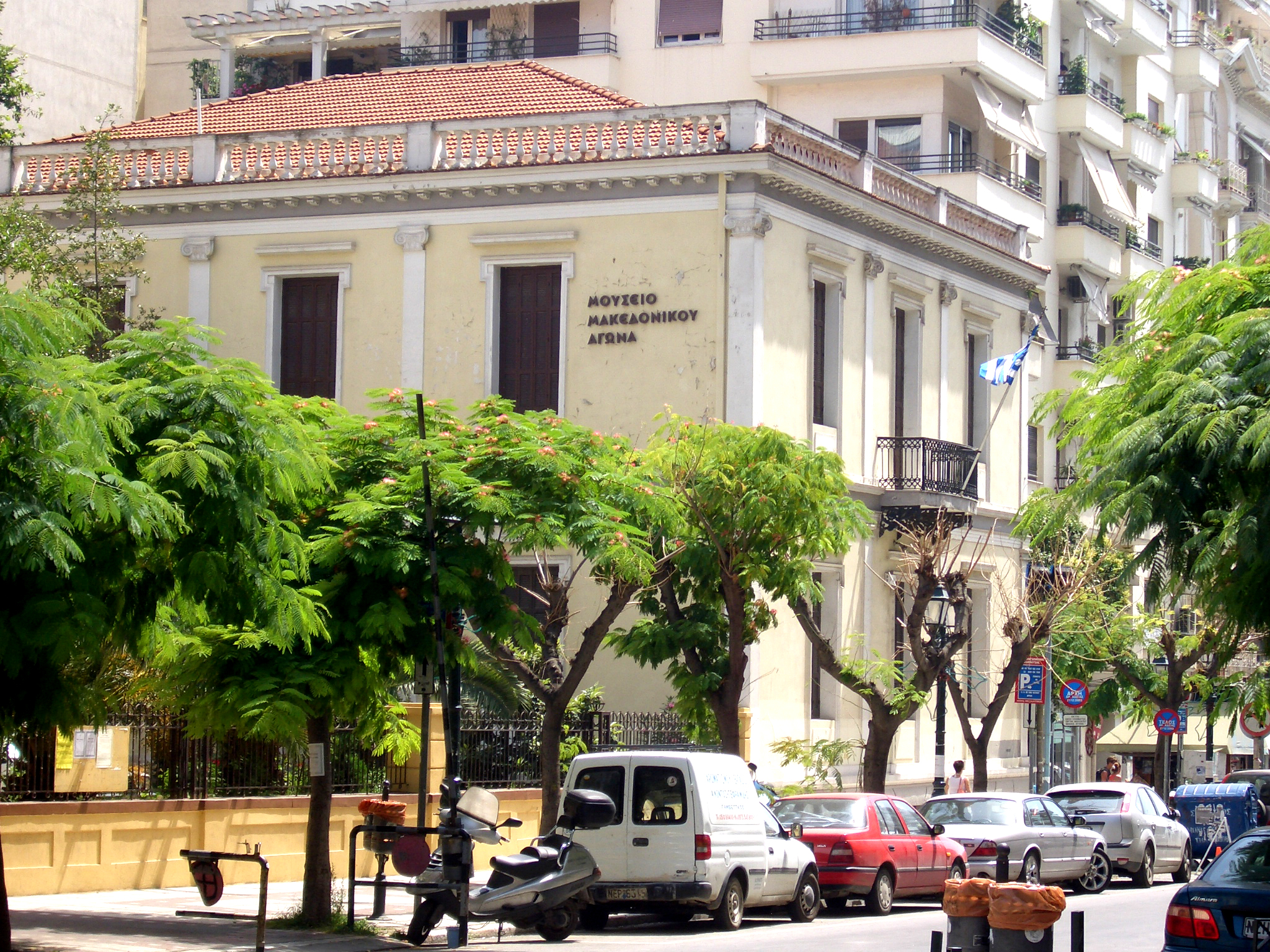 The Museum of the Greek Struggle for Macedonia in Thessaloniki in the building which functioned as Greek Consulate during the Ottoman era.